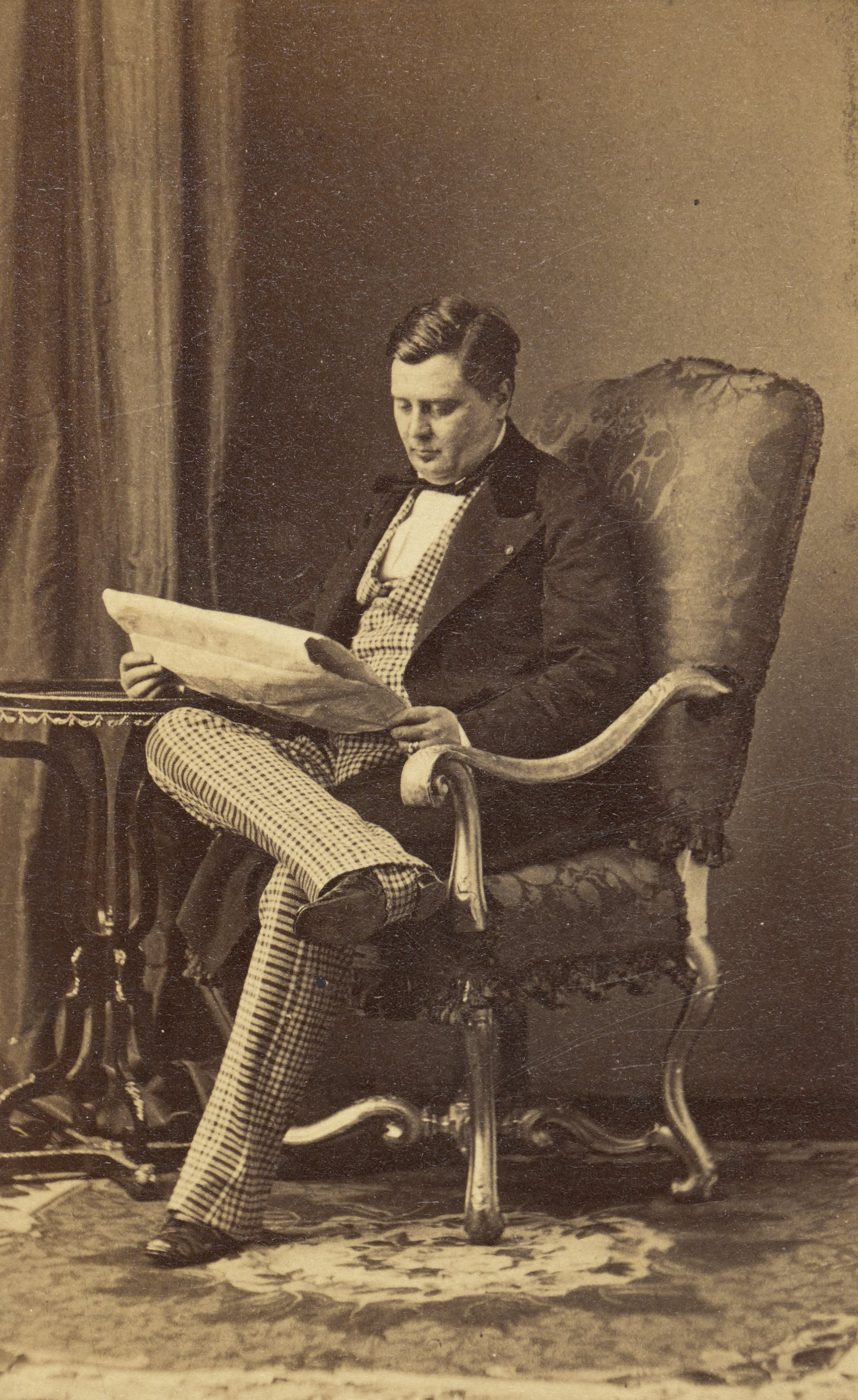 Count Aleksander Florian Józef Colonna-Walewski (1810–1868), Polish and French politician and diplomat, journalist, a participant of November insurrection in Poland, Minister of Foreign Affairs and Minister of Culture and Arts of the French Empire, marshal of French National Assembly, illegitimate son of Napoleon I and his mistress, Countess Marie Walewska.